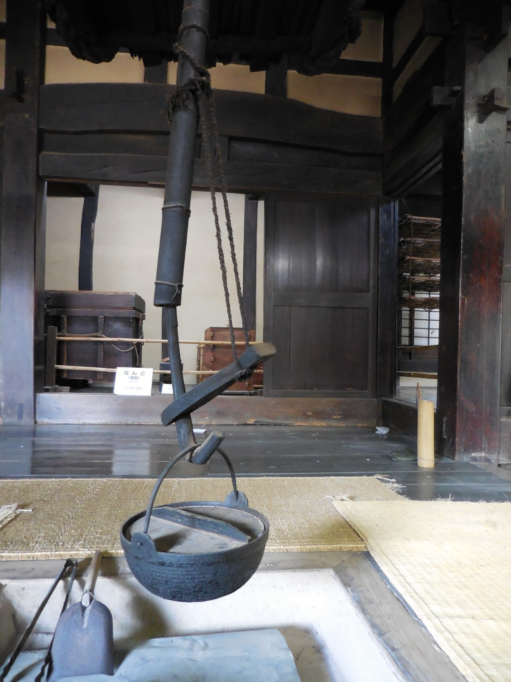 Toyonaka Farmhouse